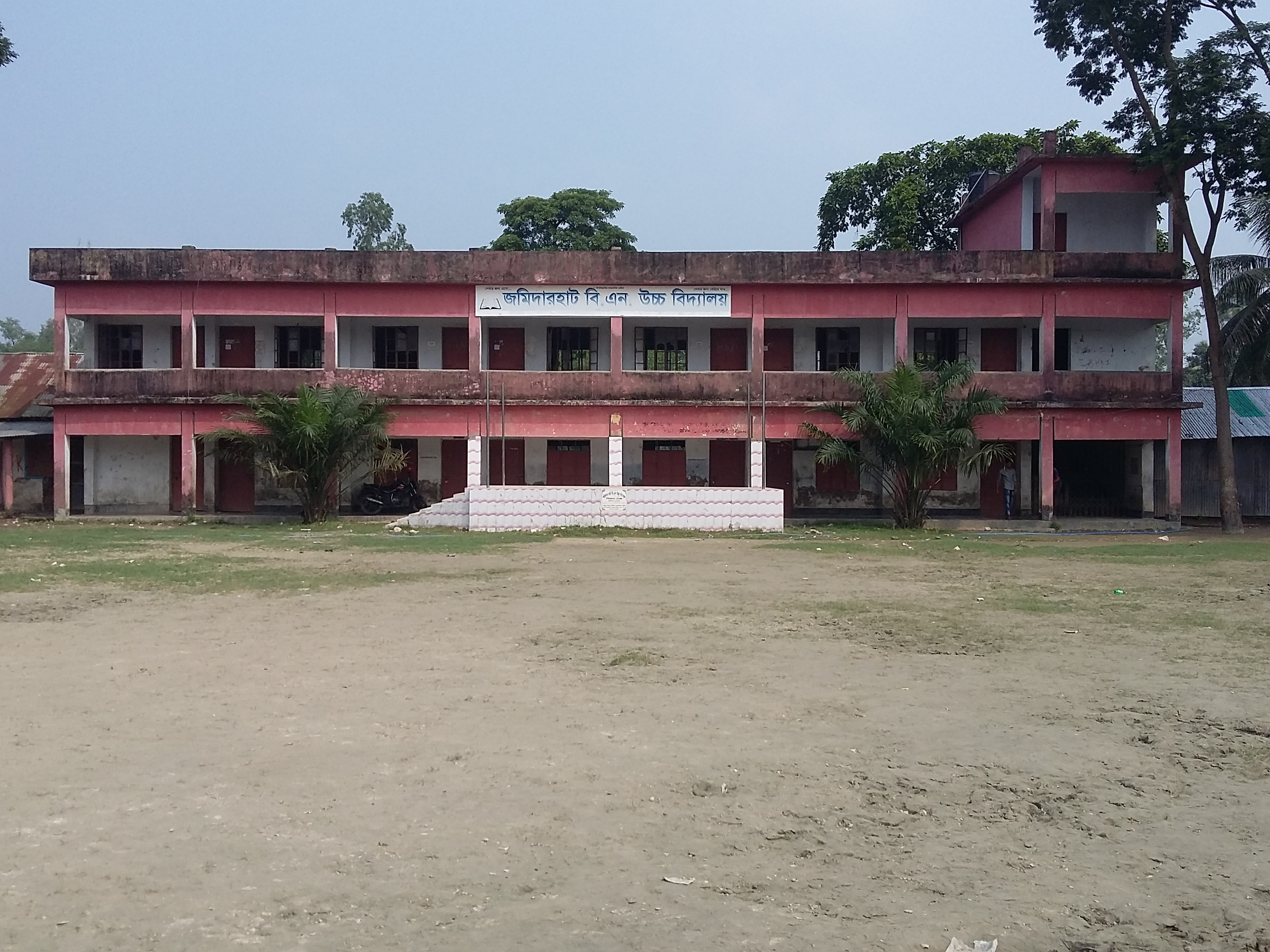 Jamidar Hat B.N. High School capture by Mahidul in October 2015